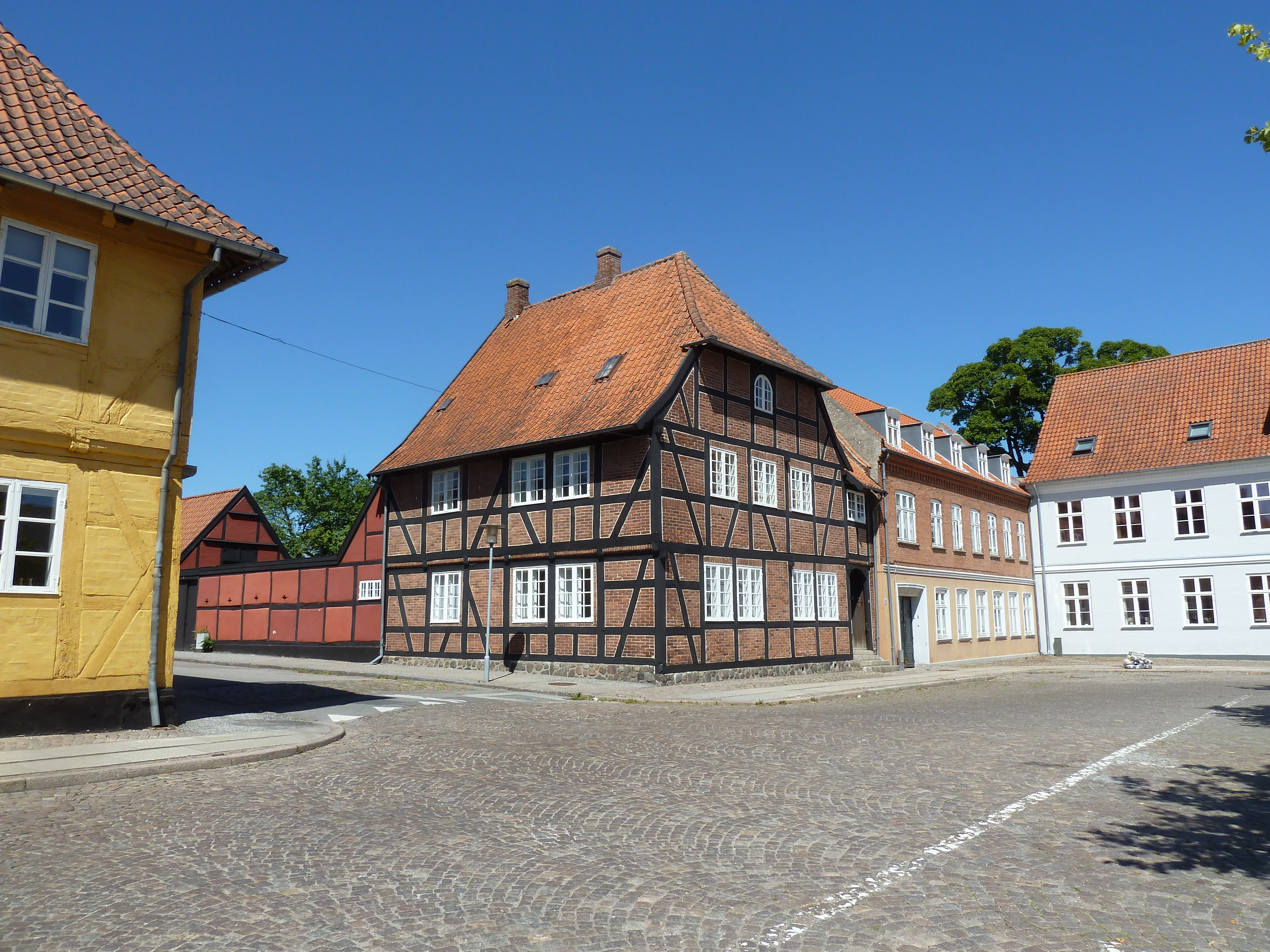 Scavenius' Stiftelse at Torvet in Sorø, Denmark